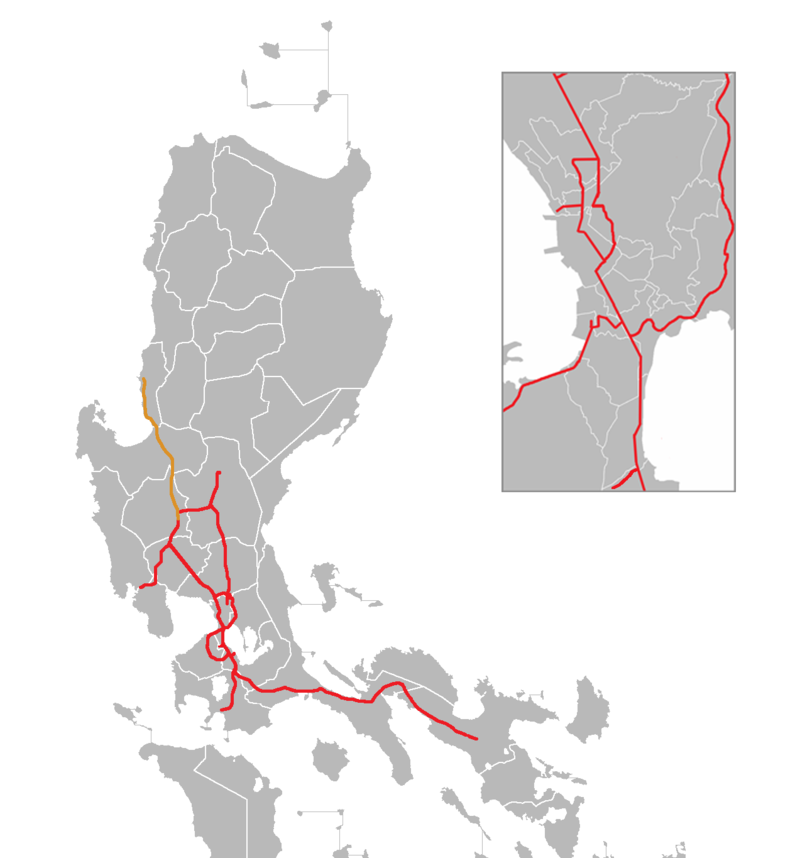 Includes extensions